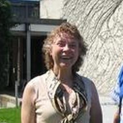 Cheryl Praeger, Oberwolfach 2007, Workshop Permutation Groups